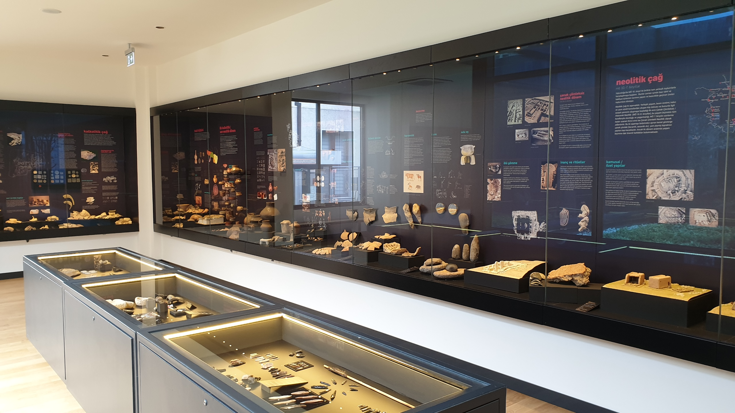 İstanbul Üniversitesi Rıdvan Çelikel Arkeoloji Müzesi'nin içinden bir görünüm